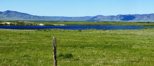 Landscape of Hutton Lake